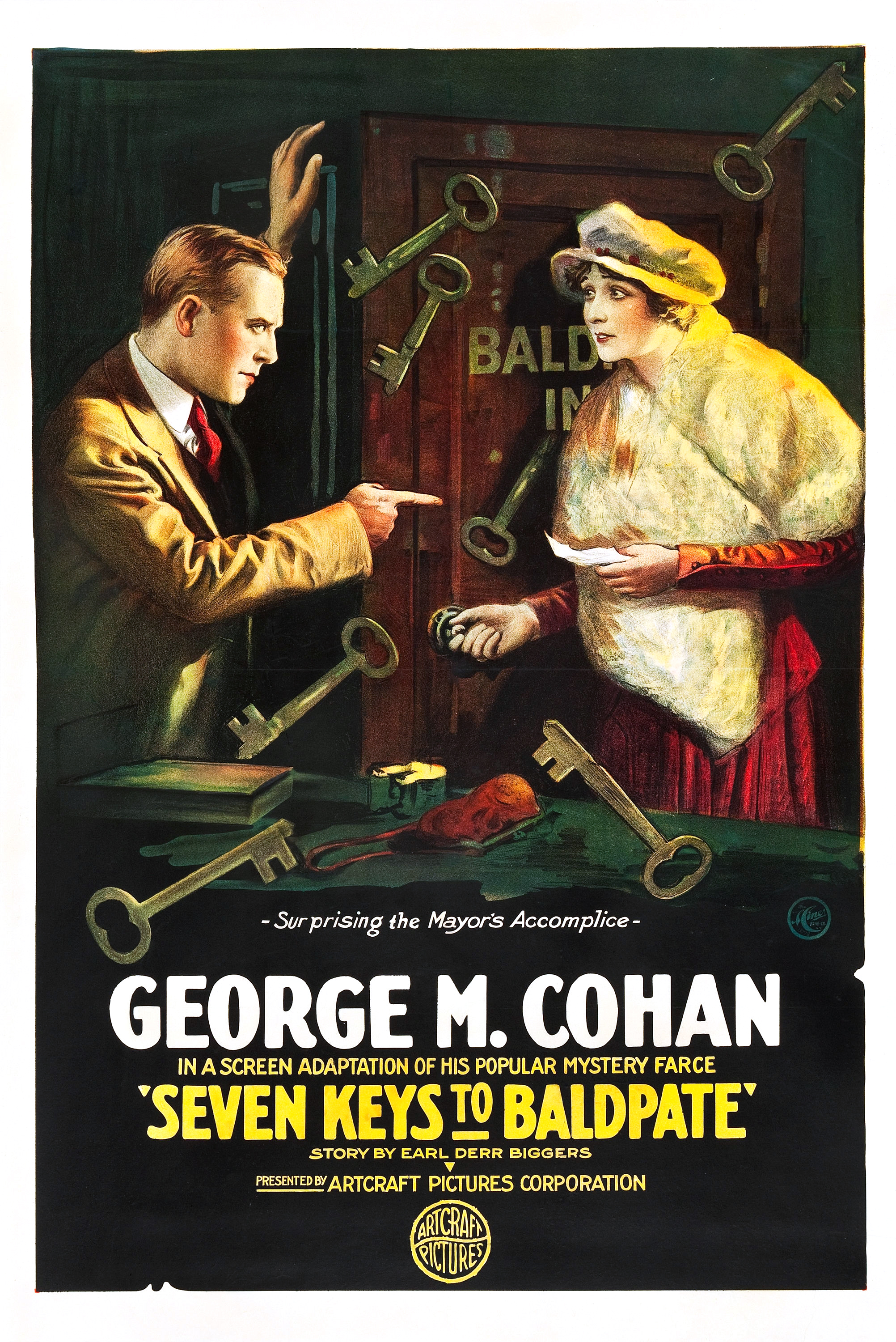 'Key Motif' stone litho poster for the American film Seven Keys to Baldpate (Artcraft, 1917) with the likenesses of George M. Cohan and Hedda Hopper (who billed under her real name Elda Furry).